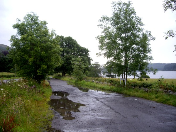 Lay by along Loch Ard